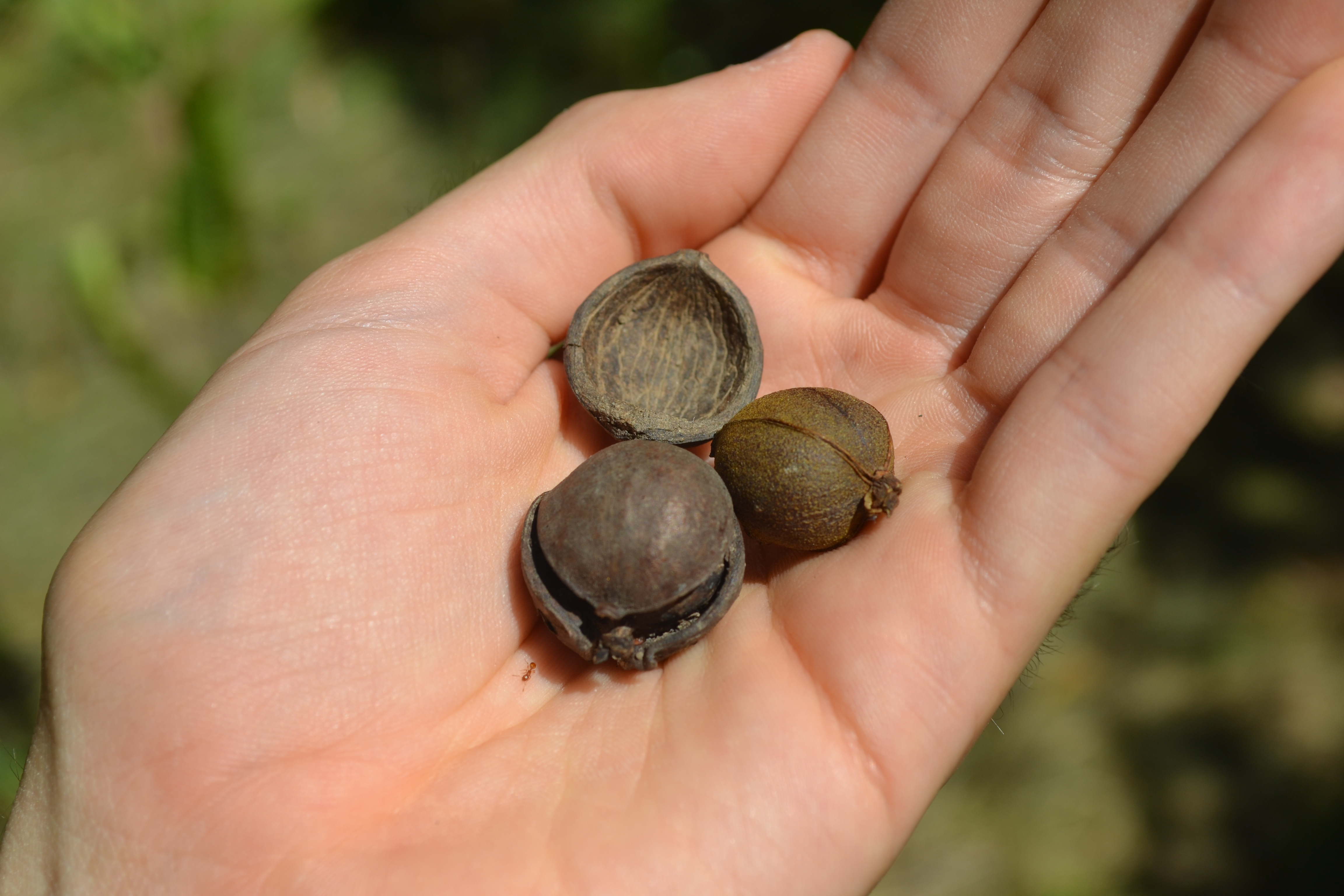 One ripe and one unripe nut from a Red Hickory.